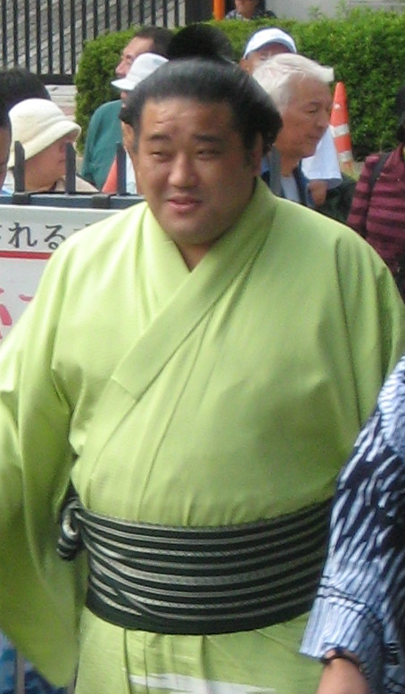 photo taken at 08 Sept tournament